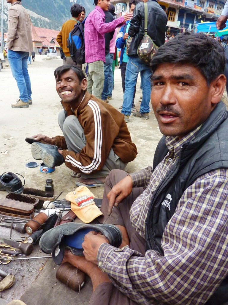 This photo was taken by myself in Rekong Peo, Himachal Pradesh, India in 2010